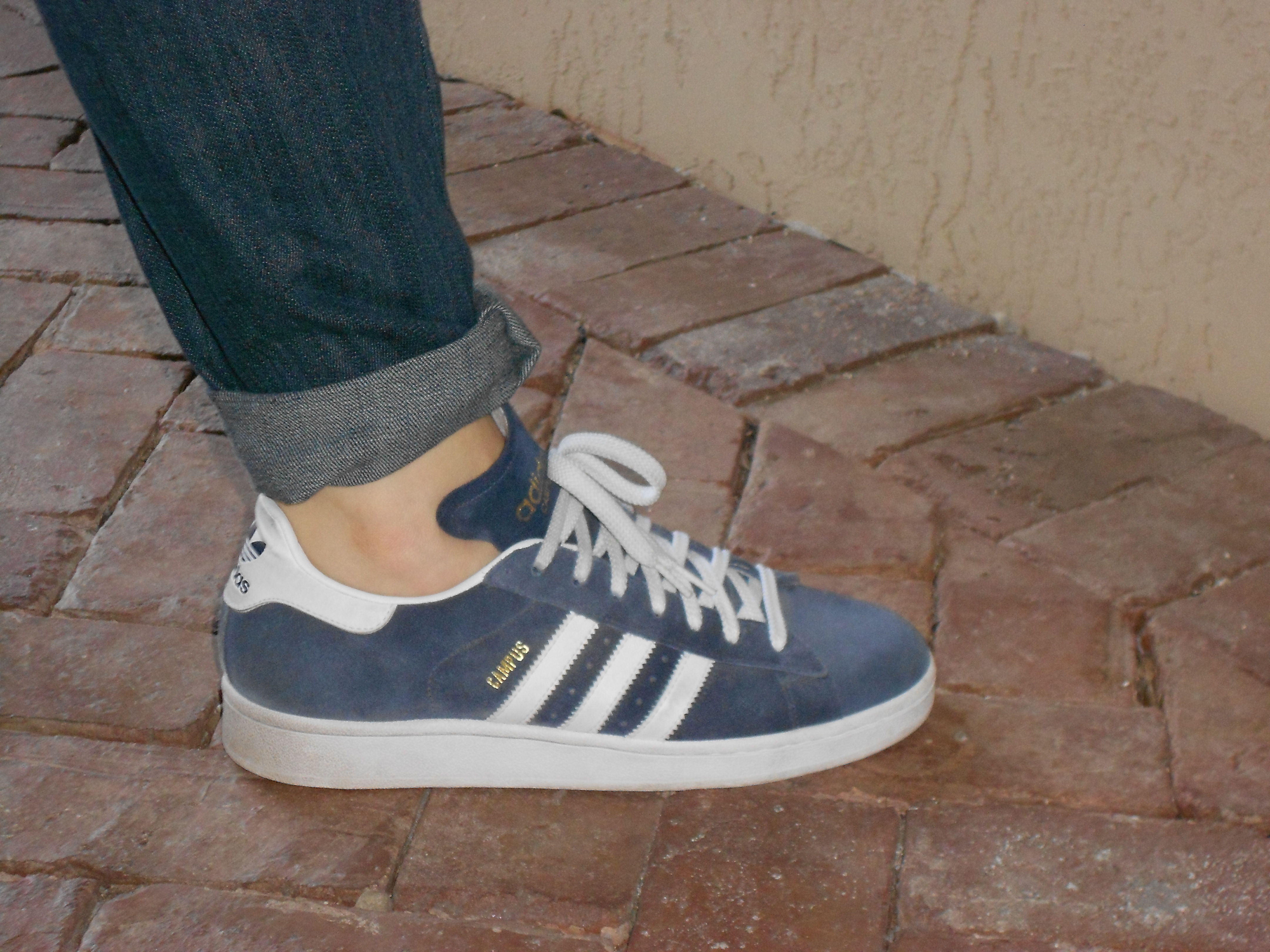 The perfect tight roll by James Fox